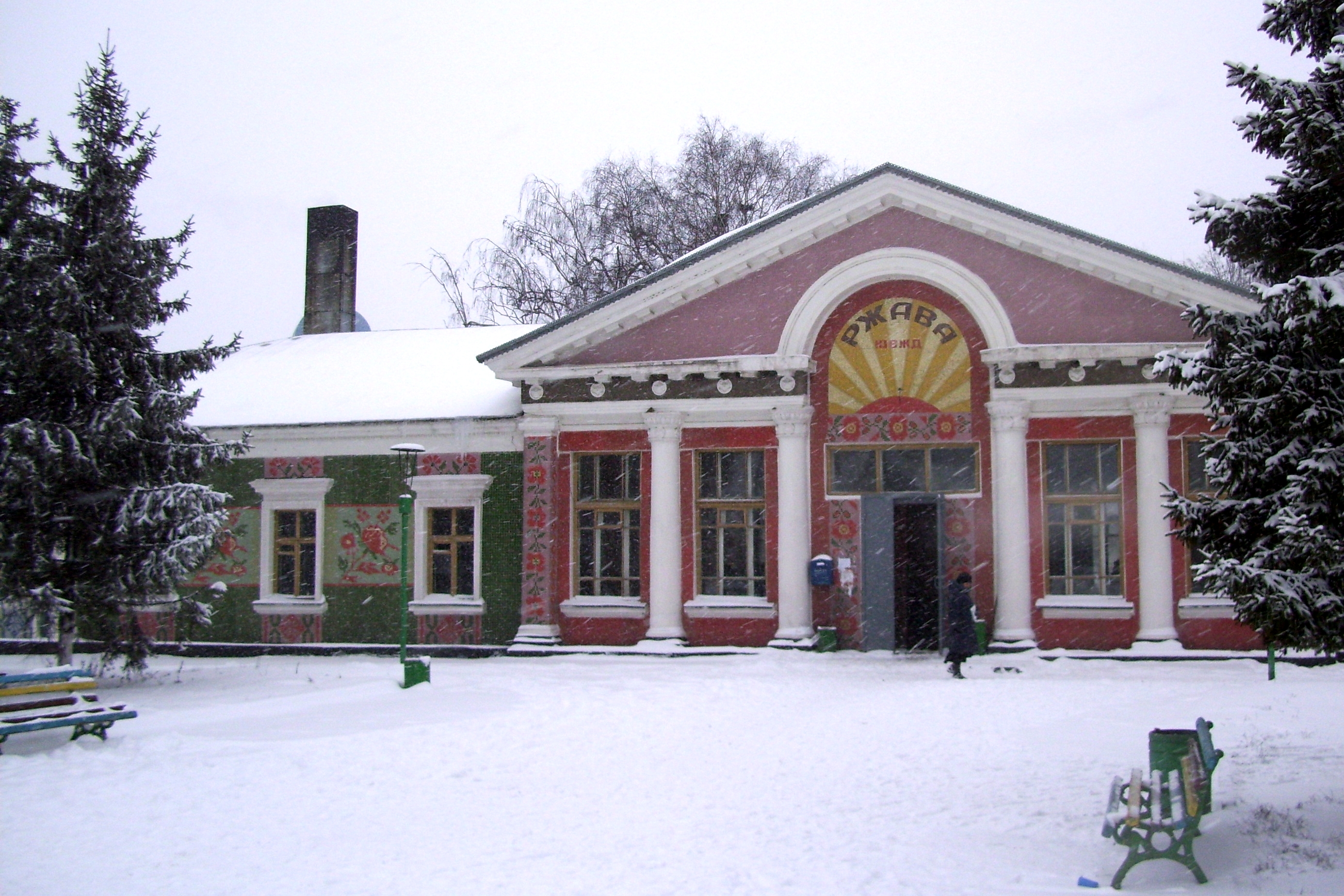 Rzhava Train Station (Southeastern Railway) in Pristen (Kursk Oblast). View from railways.